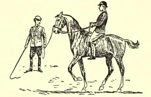 LESSON, MOUNTED, WITH THE LONGE. Illustrations from File:Equitation.djvu, see details; see too File:Equitation_images.djvu where the same images are bundled into a single djvu file